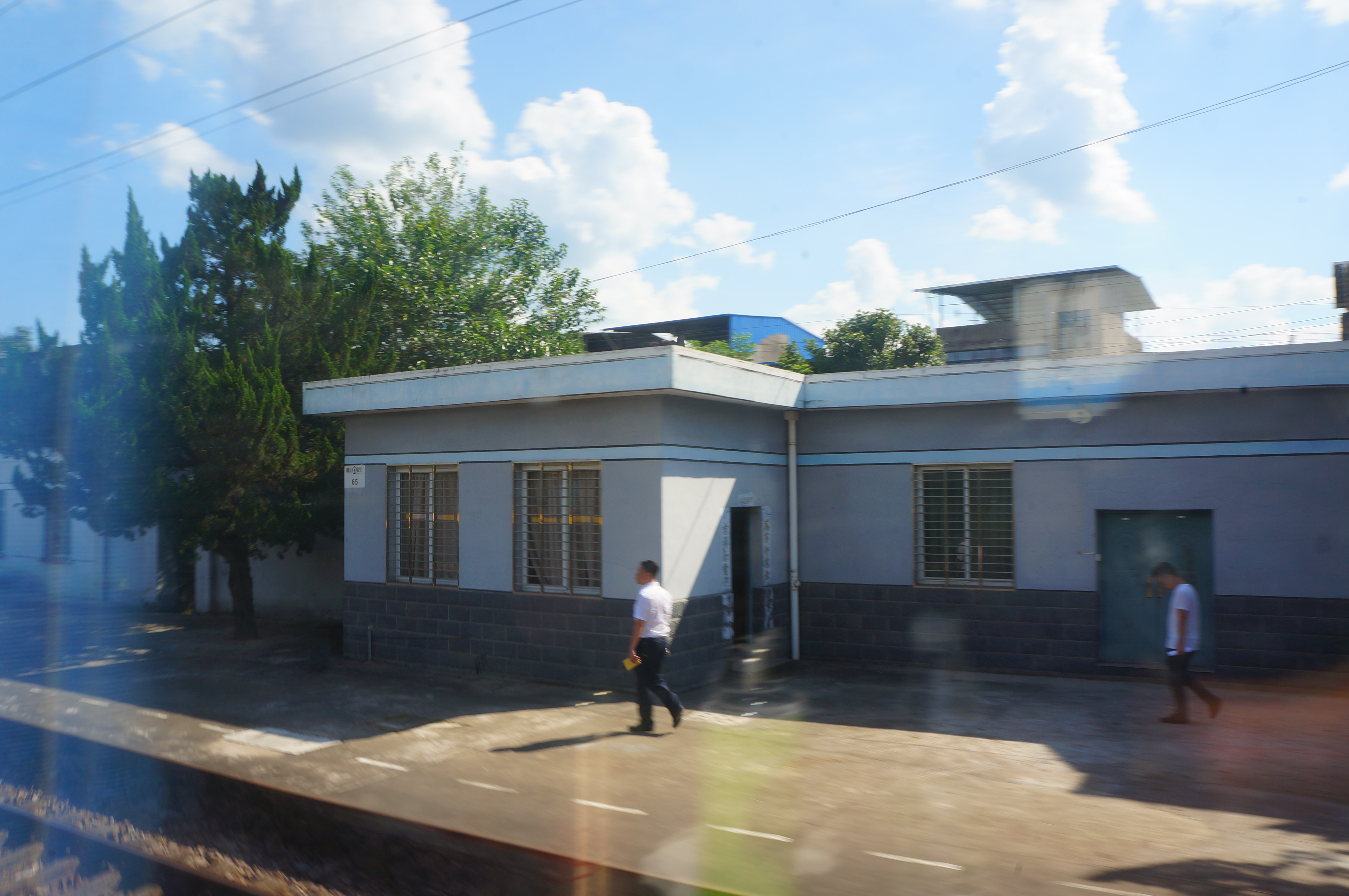 201806 Conductor of Yaocun Station